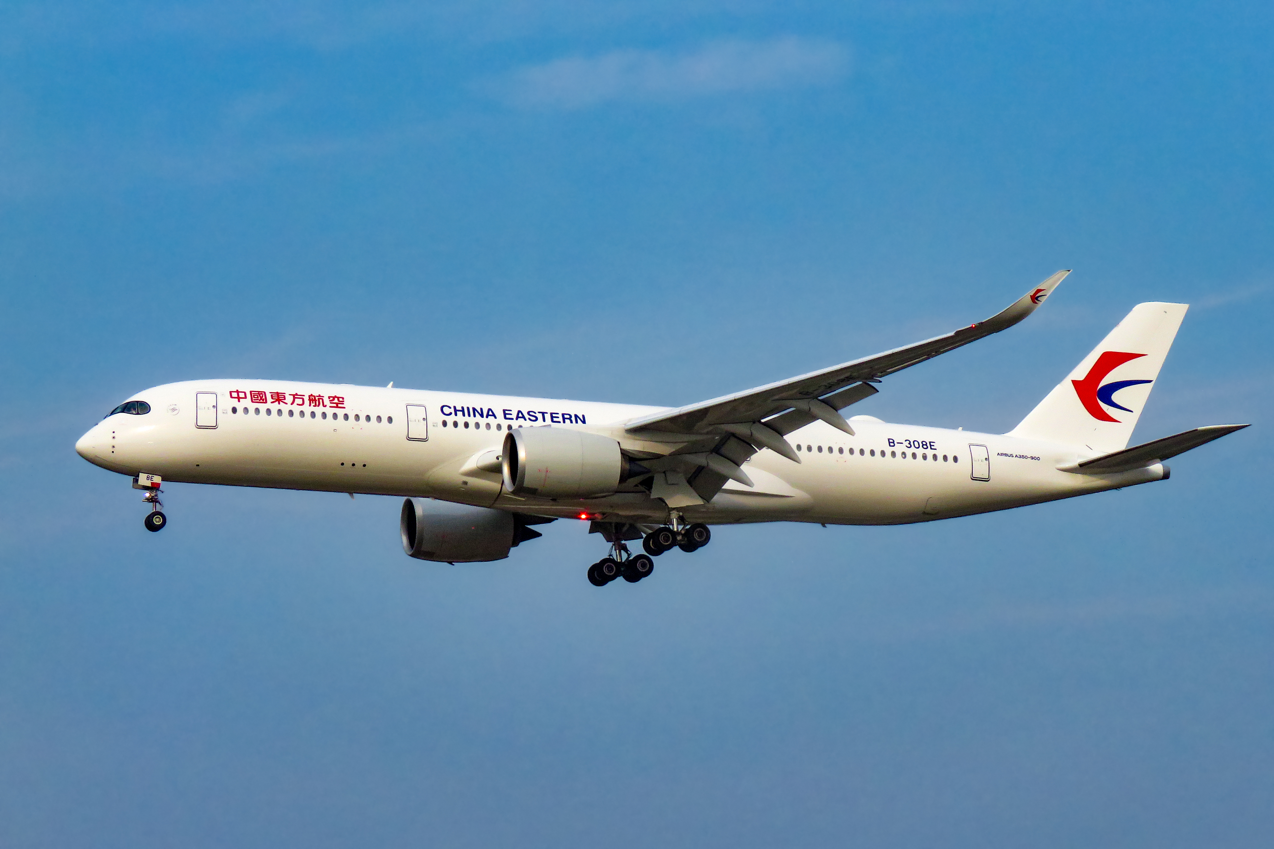 China Eastern 5117 from Shanghai Hongqiao. Today this A350 landed on 01.